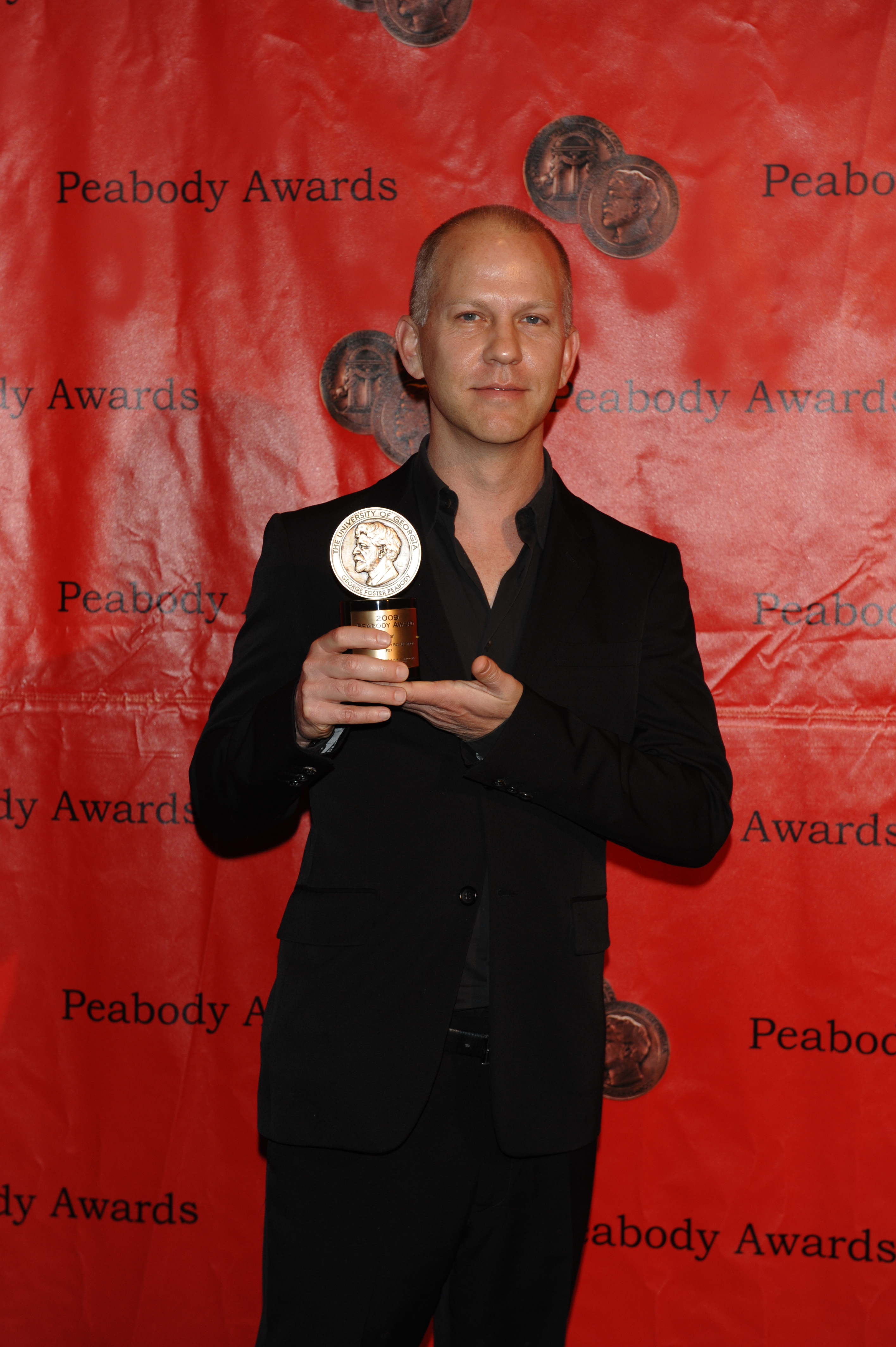 Ryan Murphy 69th Annual Peabody Awards Luncheon Waldorf=Astoria Hotel New York, NY USA May 17, 2010